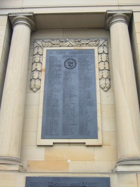 Edinburgh Academy War Memorial One of two tablets commemorating boys of the Edinburgh Academy who died in the two world wars. One of the school's former pupils was the Liberal MP, Robert Haldane, later Viscount Haldane, who, as Secretary of State for War in the government of Henry Campbell-Bannerman, implemented the extensive army reforms of 1912 in preparation for an eventual European war. In the wake of the reforms the school Cadet Corps of the public schools fed directly into the new Officer Training Corps.